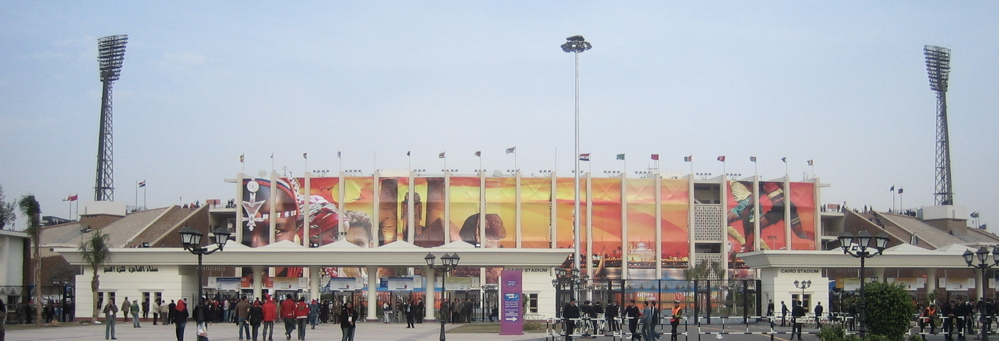 Cairo International Stadium